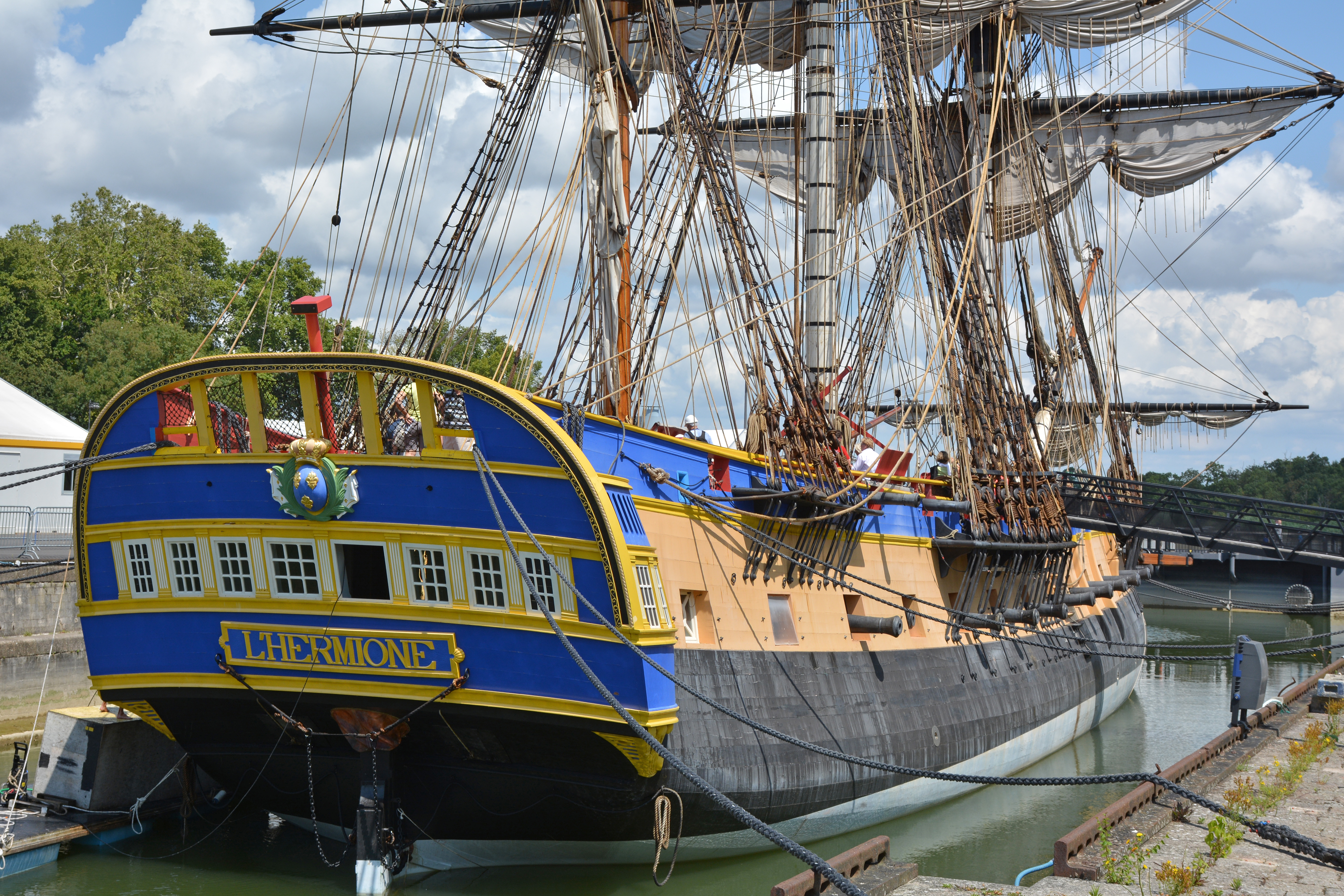 French frigate Hermione reproduction of the 1779 Hermione which achieved fame by ferrying General Lafayette to the United States in 1780. Near achievement in one of the two dry docks beside the Corderie Royale at Rochefort